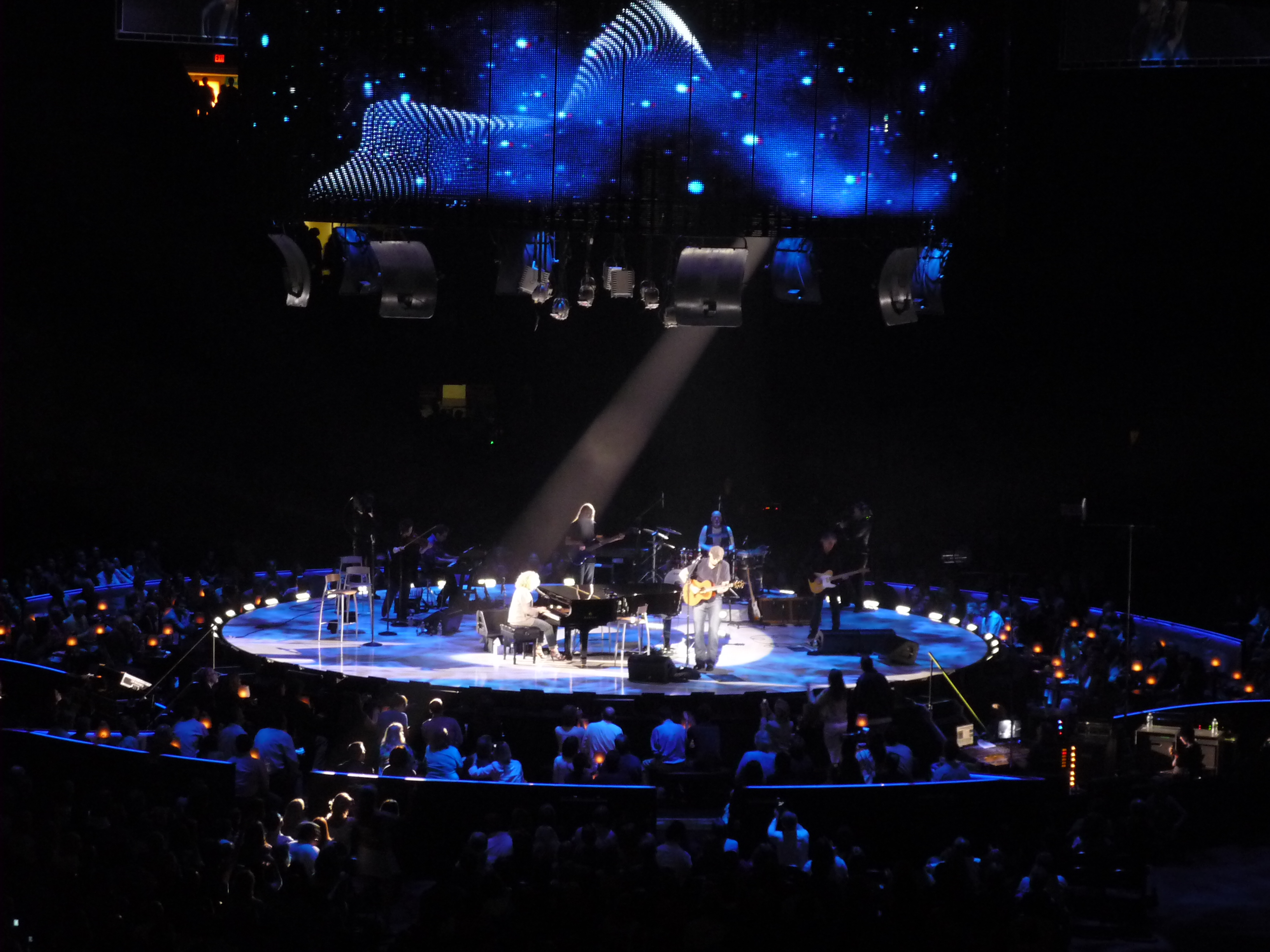 "Up on the Roof" being performed by James Taylor (right center, playing acoustic guitar) and Carole King (left center, playing piano) as the first encore during a show on their Troubadour Reunion Tour at Madison Square Garden in New York.